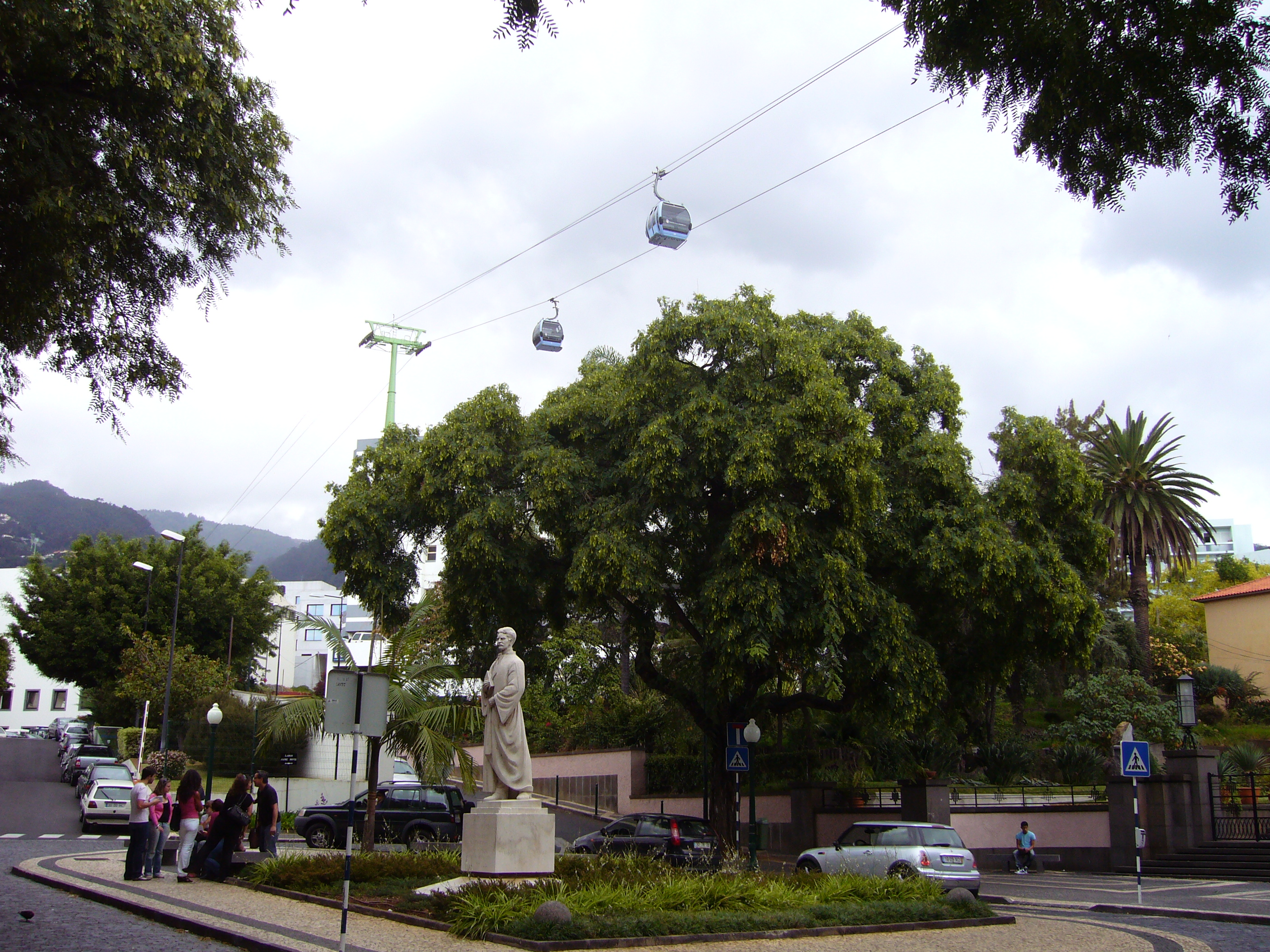 Cableway over Funchal's houses